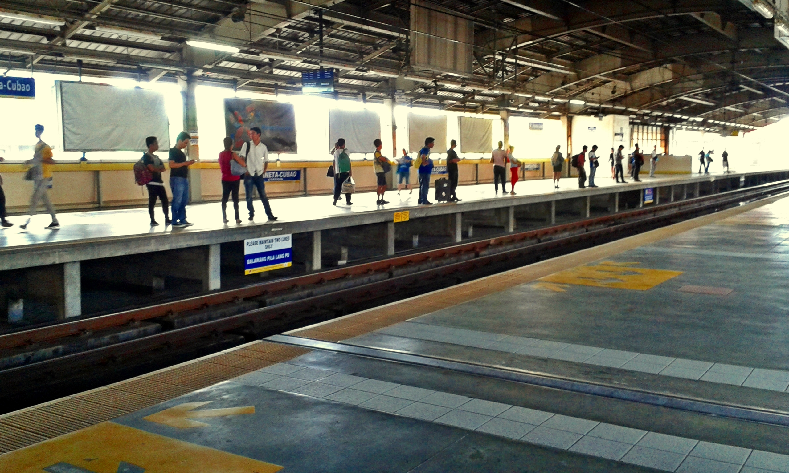 MRT-3 Araneta Center-Cubao Station Platform Area.